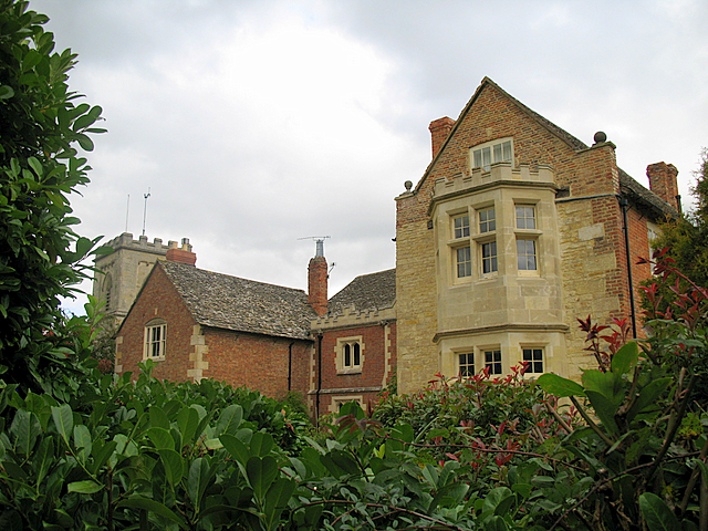 Brockworth Court Brockworth Court was first inhabitated by John Guise, the new Lord of the Manor, in 1540. The tower of St George's church can be seen to the left behind the main building.